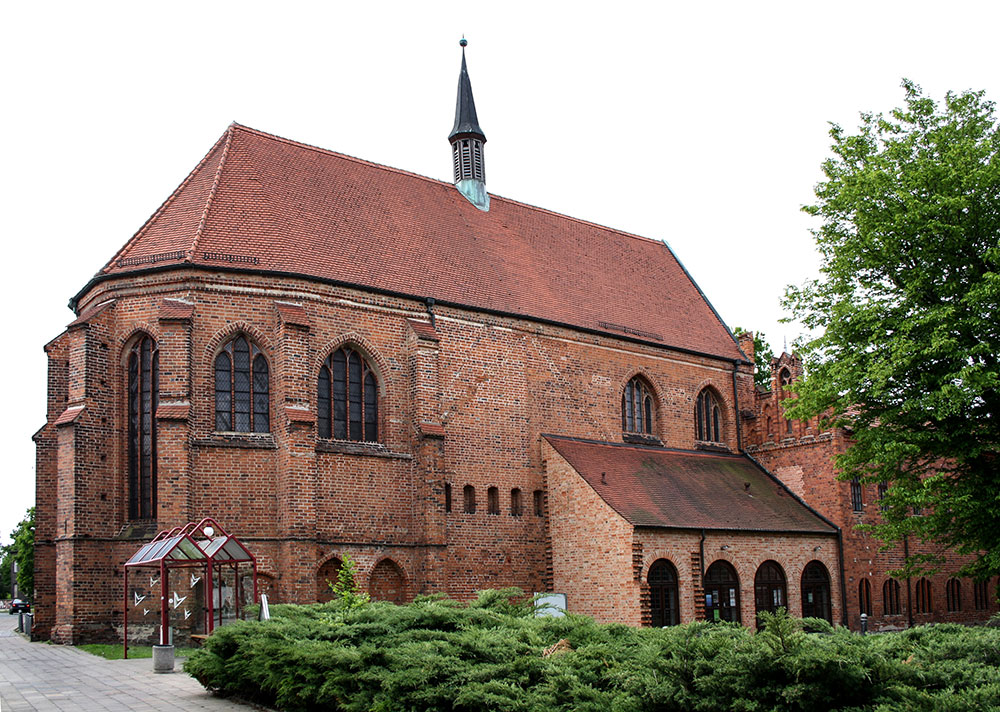 Stendal, Schadewachten 48, Church St. Katharinen from Northwest, former Reformed Church